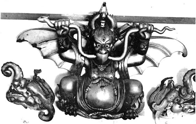 Image from La Chine à terre et en ballon.